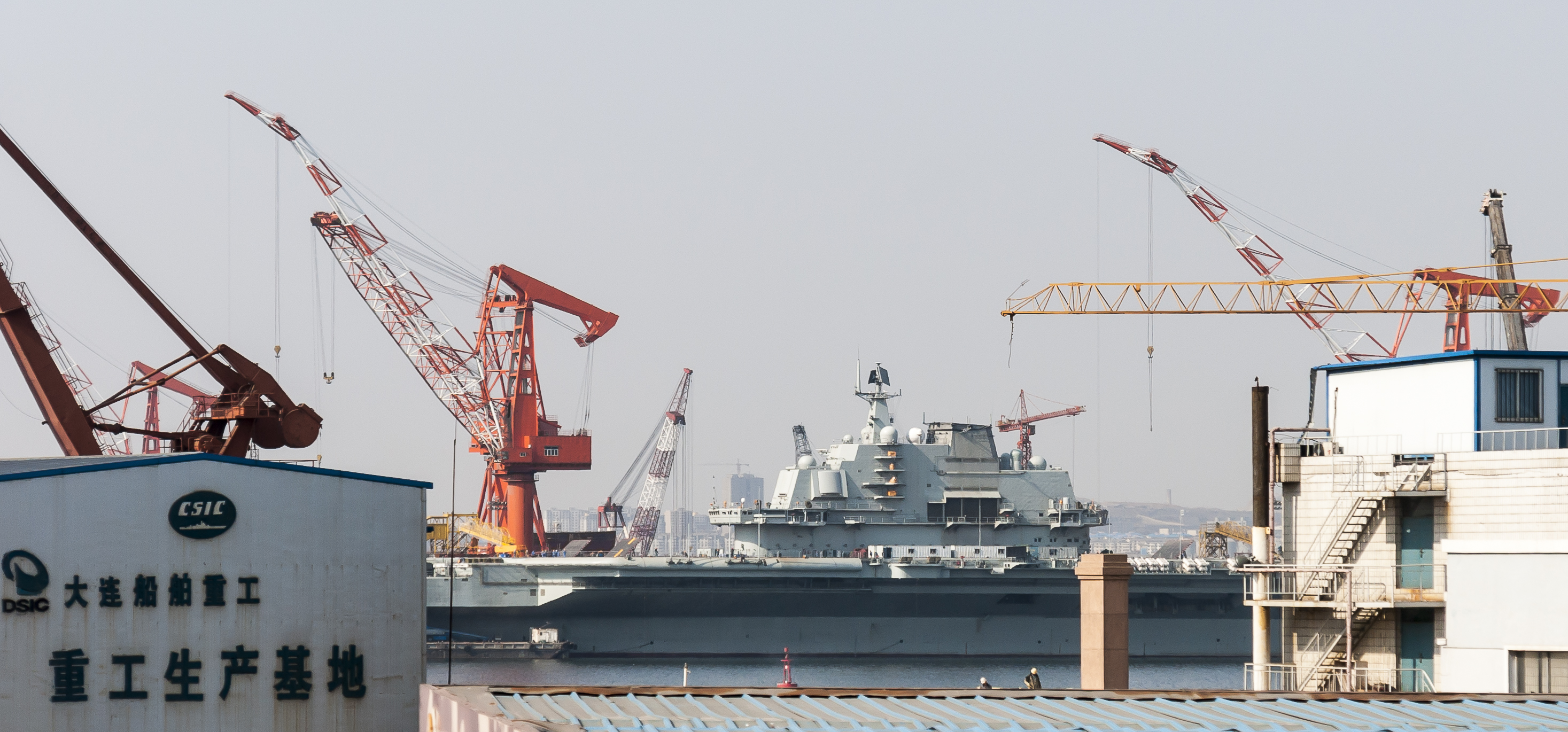 Dalian, Liaoning, China: CNS Liaoning (CV-16) during refurbishment in Dalian Shipyard